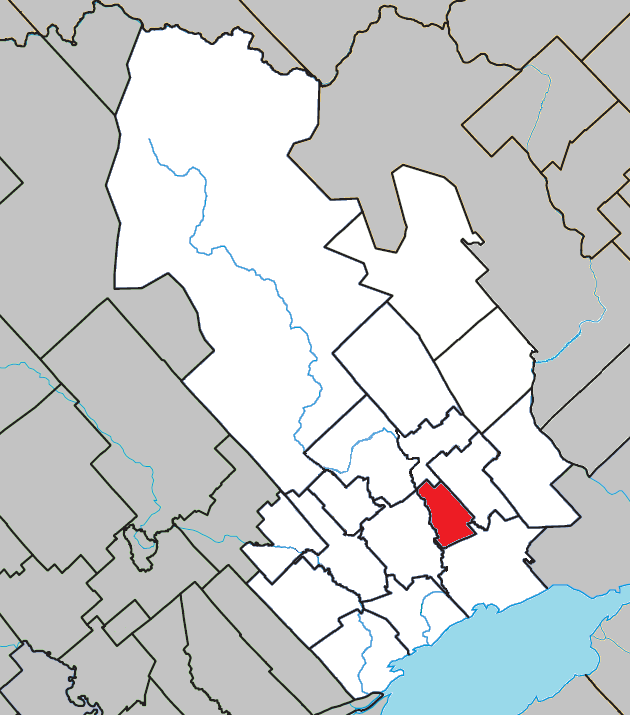 Location of Saint-Sévère, Quebec within Maskinongé Regional County Municipality.